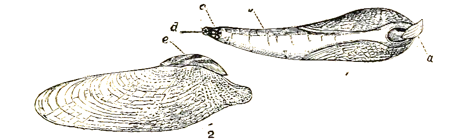 The common piddock (Pholas dactylus) Linnaeus, 1758; Pholadidae